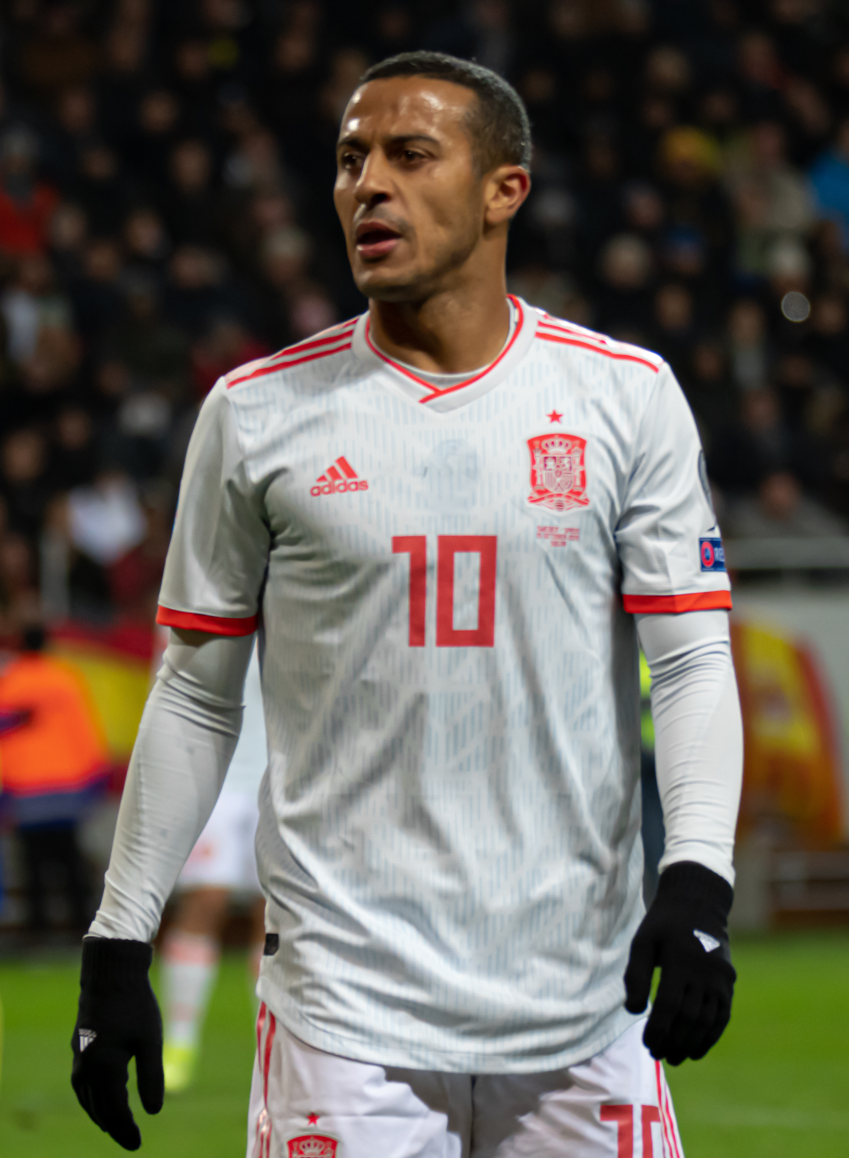 UEFA_EURO_qualifiers_Sweden_vs_Spain_20191015